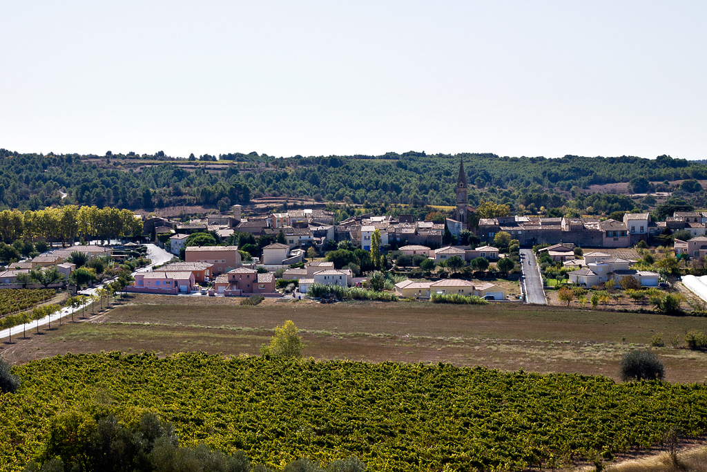 Village of Aumes (Hérault), France.